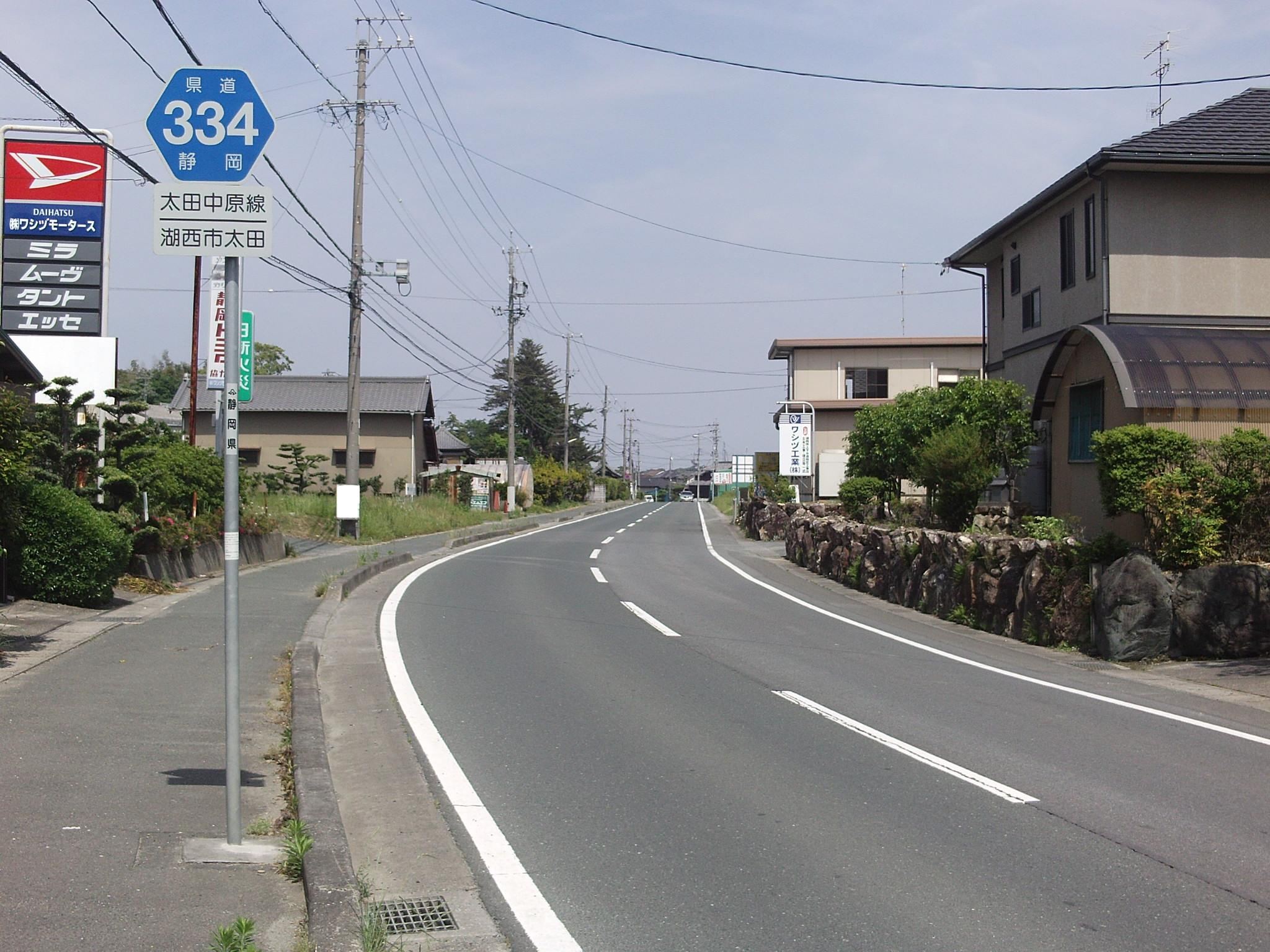 Shizuoka prefectural road No.334 in Ota, Kosai, Shizuoka.